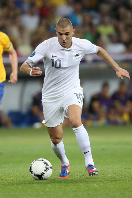 Karim Benzema at the Euro 2012 match against Sweden